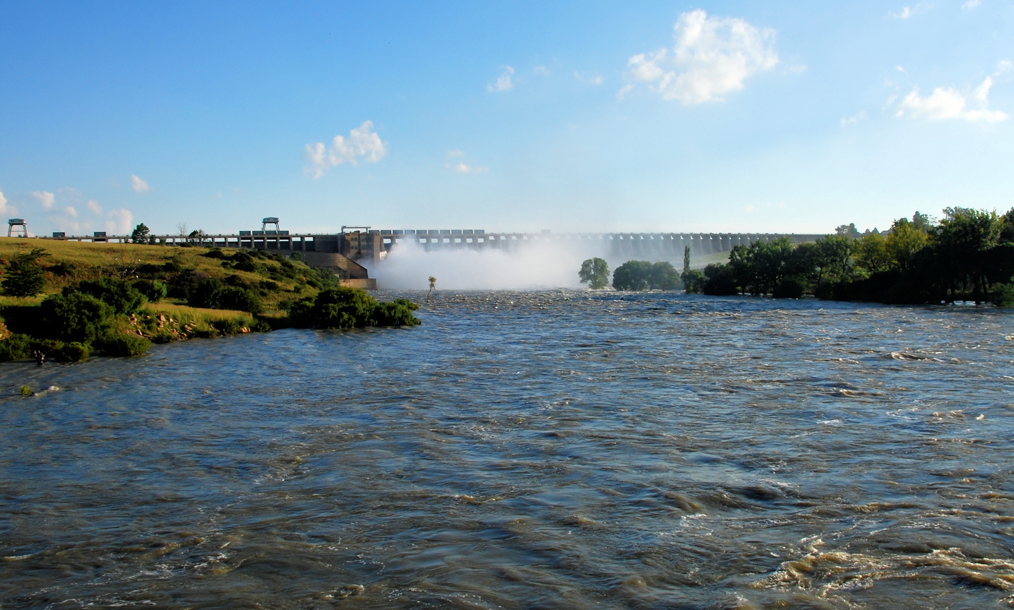 The Vaal Dam overflows, some sluice gates were opened, February 2010